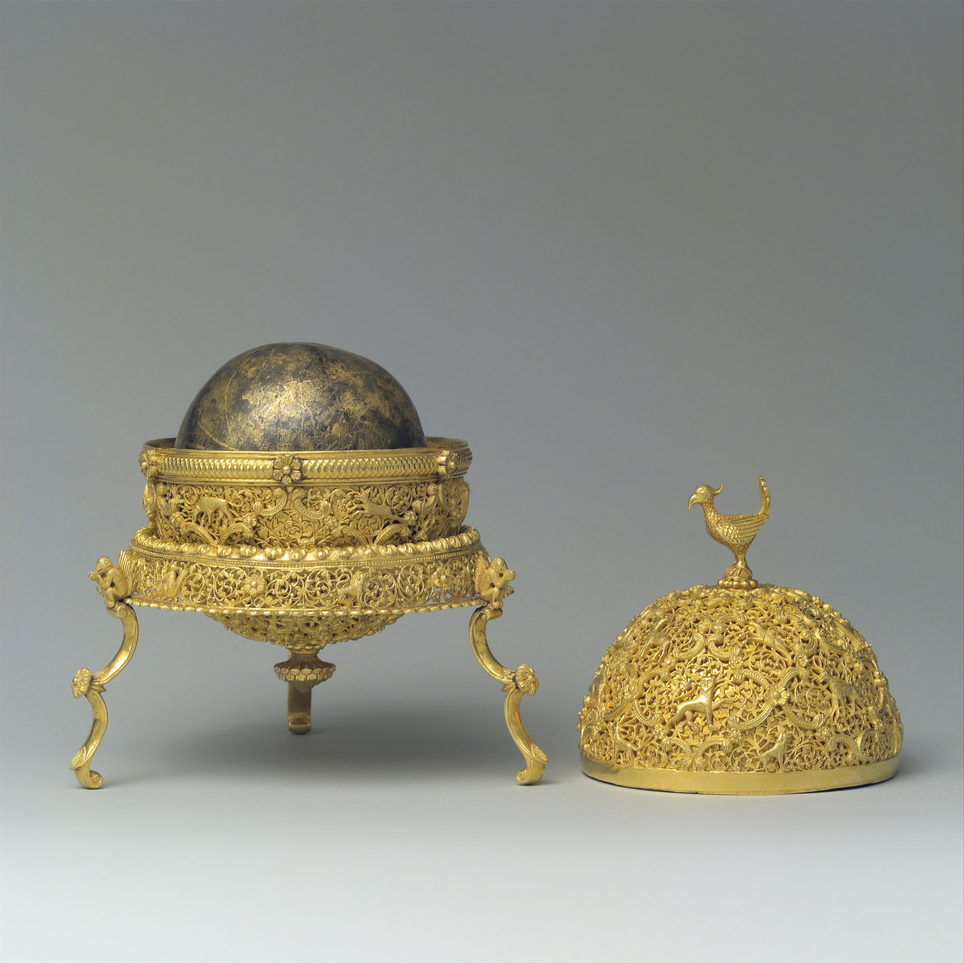 Goa Stone and Gold Case